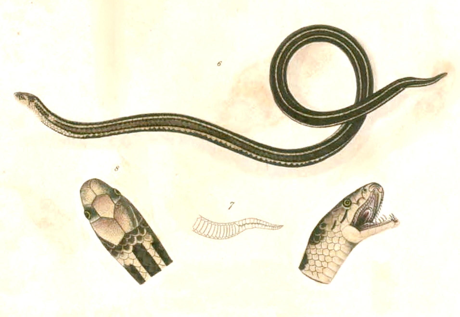 « Changulia albiventer » = Calamaria albiventer